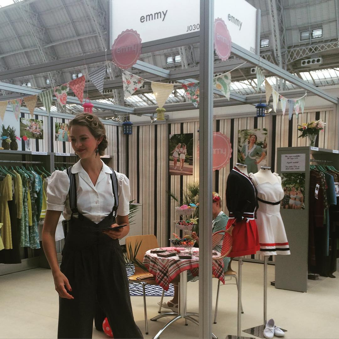 Lovely vintage inspired clothing at Pure London @olympialondon #purelondon @emmydesignsweden #vintage #30s_inspired #clothing #fashion #igerslondon